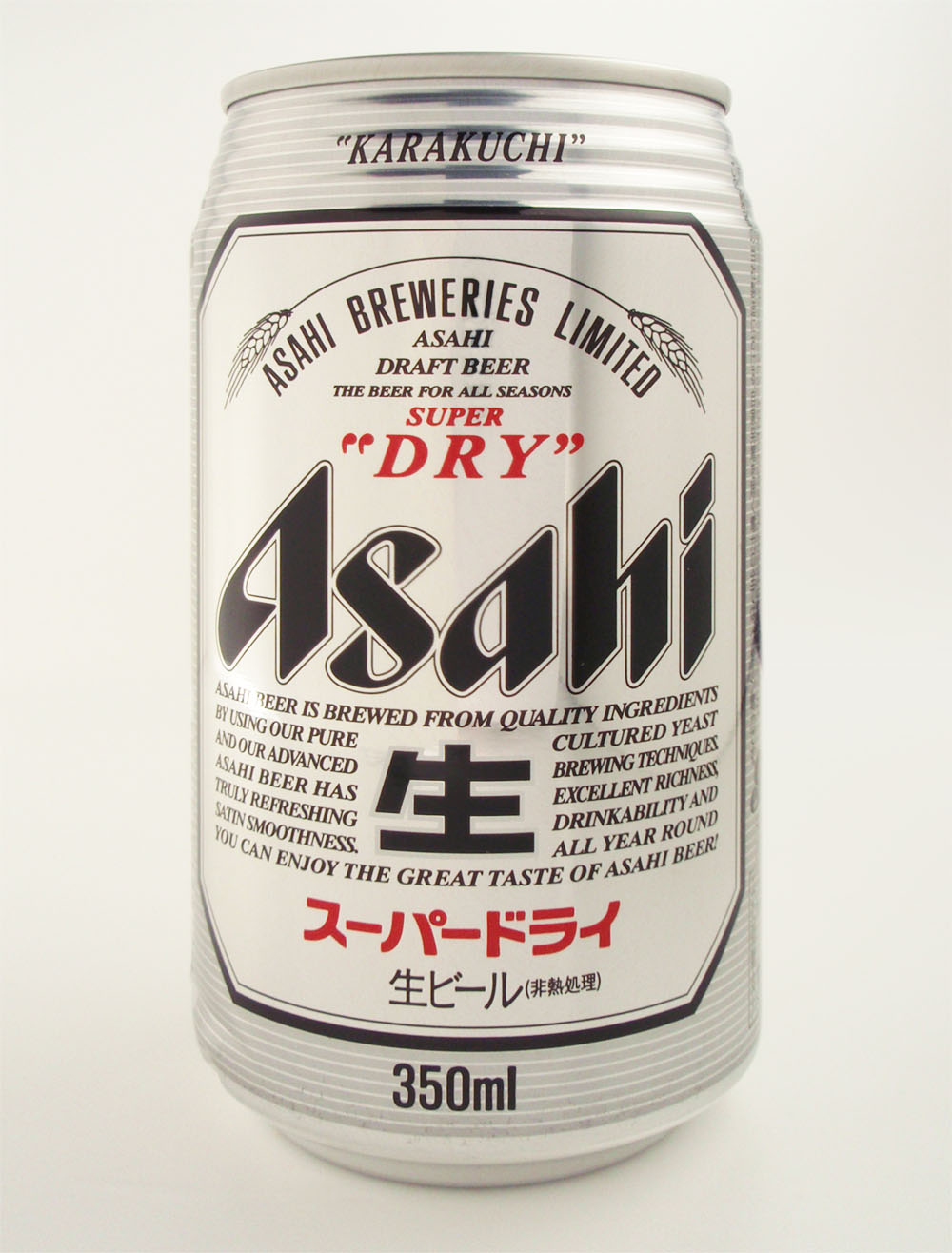 Asahi Breweries's 350 ml can of Asahi SUPER DRY in 2011 Japan.